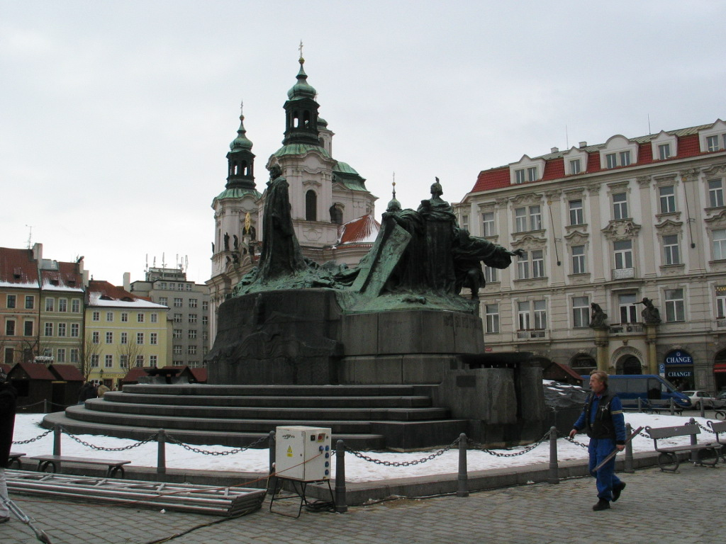 The monument on the back groudn fo st NIcholas Church, in the middle of Old Town Square in Prague